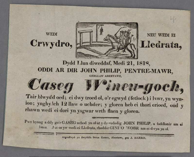 Wedi Crywdro…